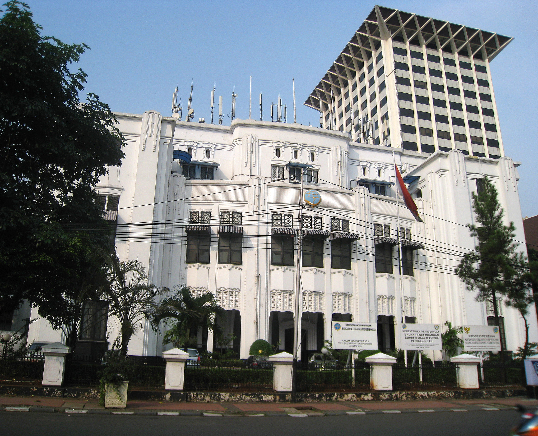 The building of National Comitee of Sea Transportation Safety and Research and Development of Ministry of Transportation of Indonesia, Jalan Medan Merdeka Timur, Central Jakarta.